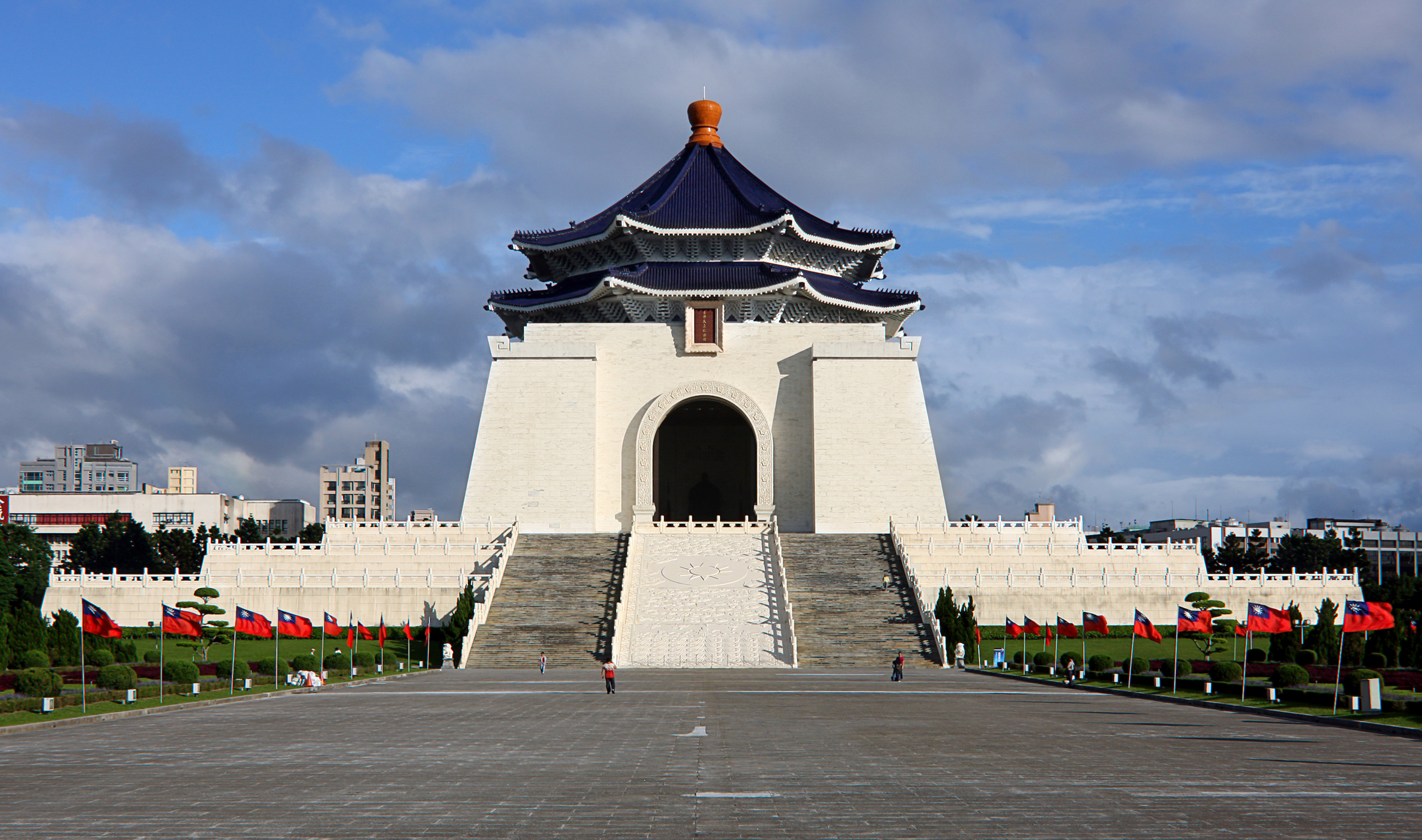 National Chiang Kai-shek Memorial Hall in Taipei (Republic of China)